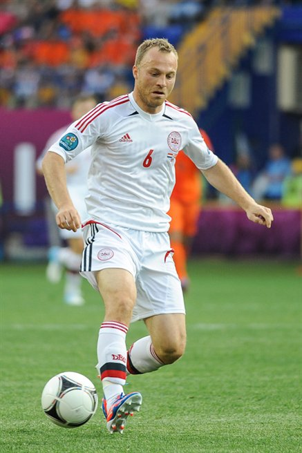 UEFA Euro 2012 match between Netherlands and Denmark that took place in Kharkiv. Final result was 0:1 (Krohn-Delhi)